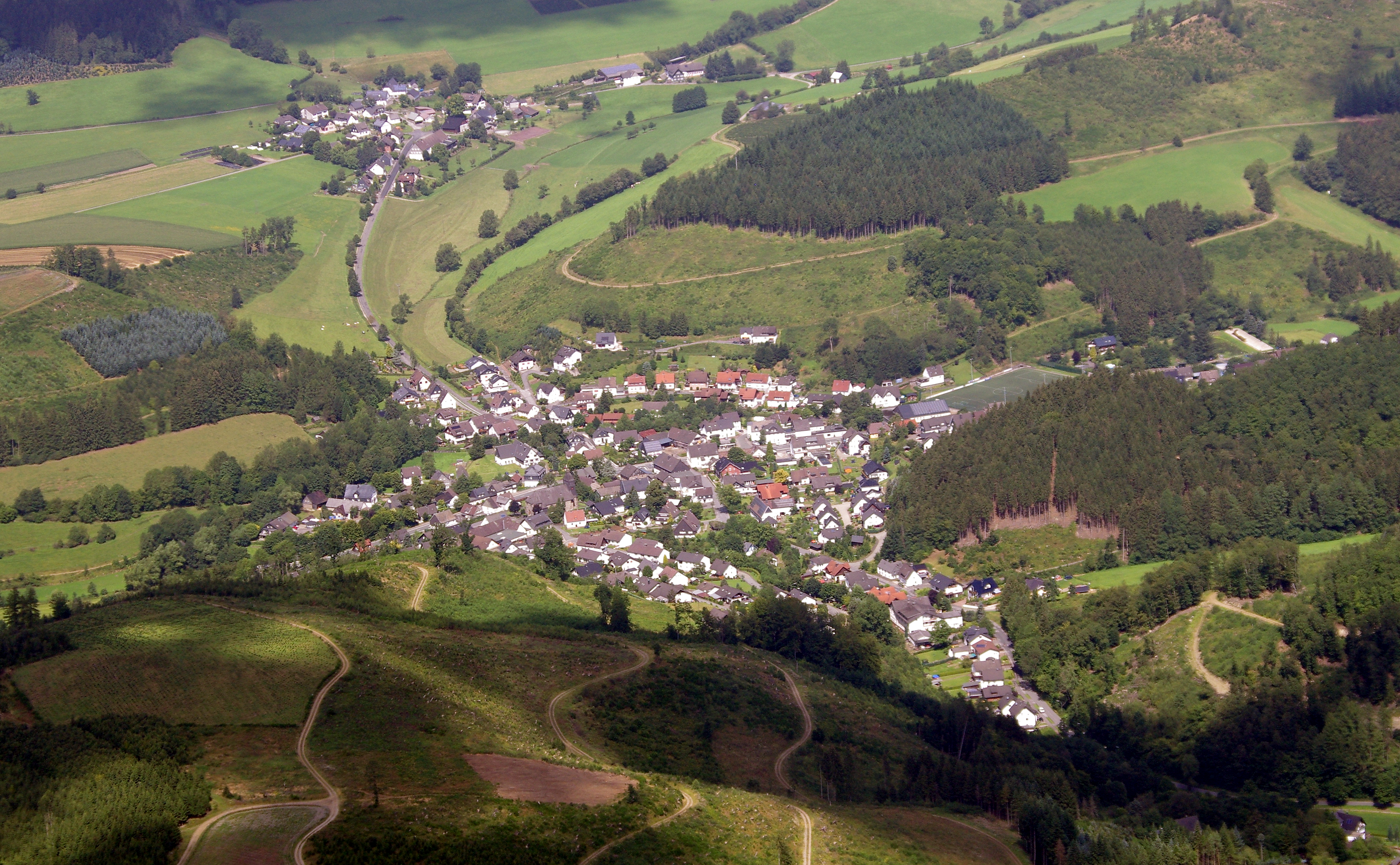 Aerial view of Oberelspe (foreground) and Altenvalbert (background)